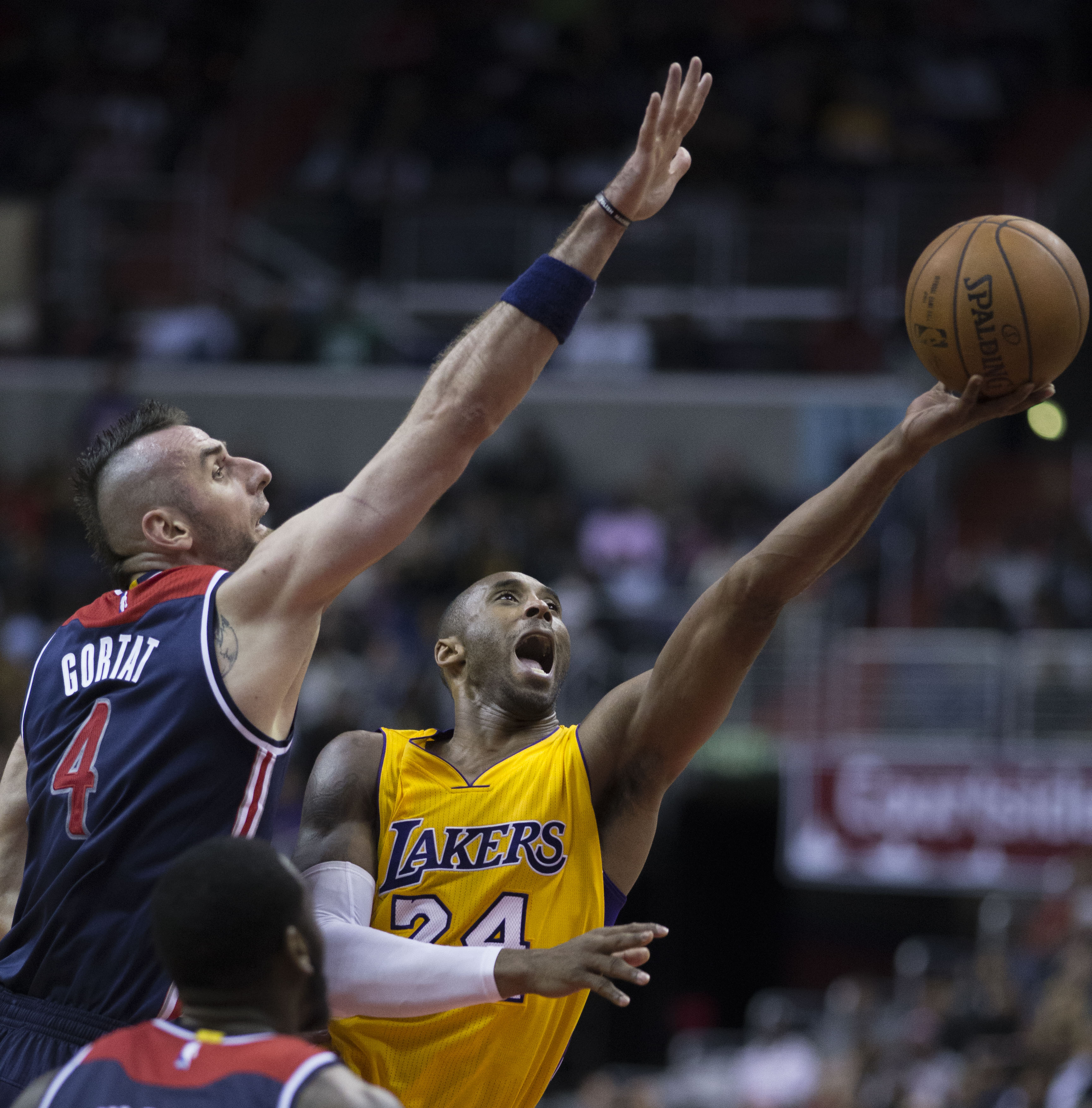 Kobe Bryant of the Los Angeles Lakers shooting against Marcin Gortat of the Washington Wizards